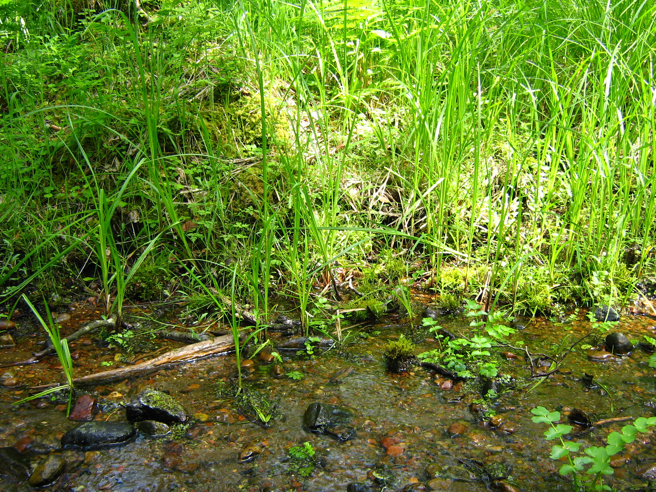 Carex remota in spring area, Poland